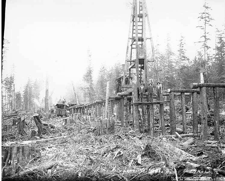 Caption on image: Aloha Mill & Lumber Co., Aloha, Wash. C. Kinsey Photo, Seattle. No. 2 PH Coll 516.15 Aloha was once home to Aloha Mill and Shake Company. It is located two miles east of the Pacific Ocean on Beaver Creek in west central Grays Harbor County. It was founded by R. D. Emerson and W. H. Dole in 1905. The name, a Hawaiian greeting, was chosen by members of the Dole family, who were landowners and business people in Hawaii. In 1920, Aloha Mill & Lumber Co. successfully bid on a unit of timber near Moclips, six miles away from its mill. For the next two years the company toiled at constructing a railroad to the sale site. Heavy rains during the winter months, 25 to 30 inches a month, delayed the start of logging until the summer of 1922. Subjects (LCTGM): Railroad construction & maintenance--Washington (State); Trestles--Washington (State); Railroad construction workers--Washington (State); Construction equipment--Washington (State); Aloha Lumber Company--People--Washington (State); Aloha Lumber Company--Equipment & supplies--Washington (State) Subjects (LCSH): Logging railroads--Washington (State)--Grays Harbor County--Design and construction; Logging--Washington (State)--Grays Harbor County